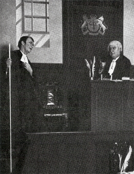 D'Oyly Carte Opera Company publicity photograph, 1920, showing from left Sydney Granville as the Usher and Leo Sheffield as the Learned Judge. Reproduced from Mander, Raymond and Joe Mitchenson. A Picture History of Gilbert and Sullivan, Vista Books, London, 1962, p. 96